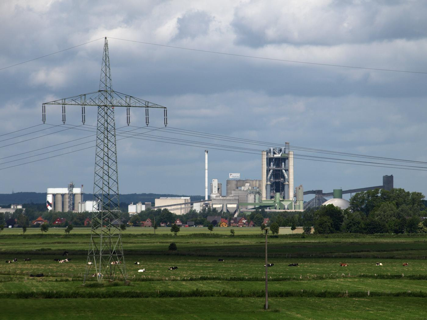 Rethwisch/Lägerdorf (Schleswig-Holstein, Germany), cement works, photo 2009